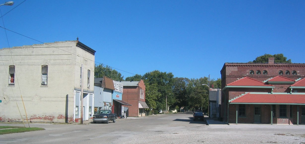 Created by myself. Taken 1-10-06. Created by myself. Taken 1-10-06.